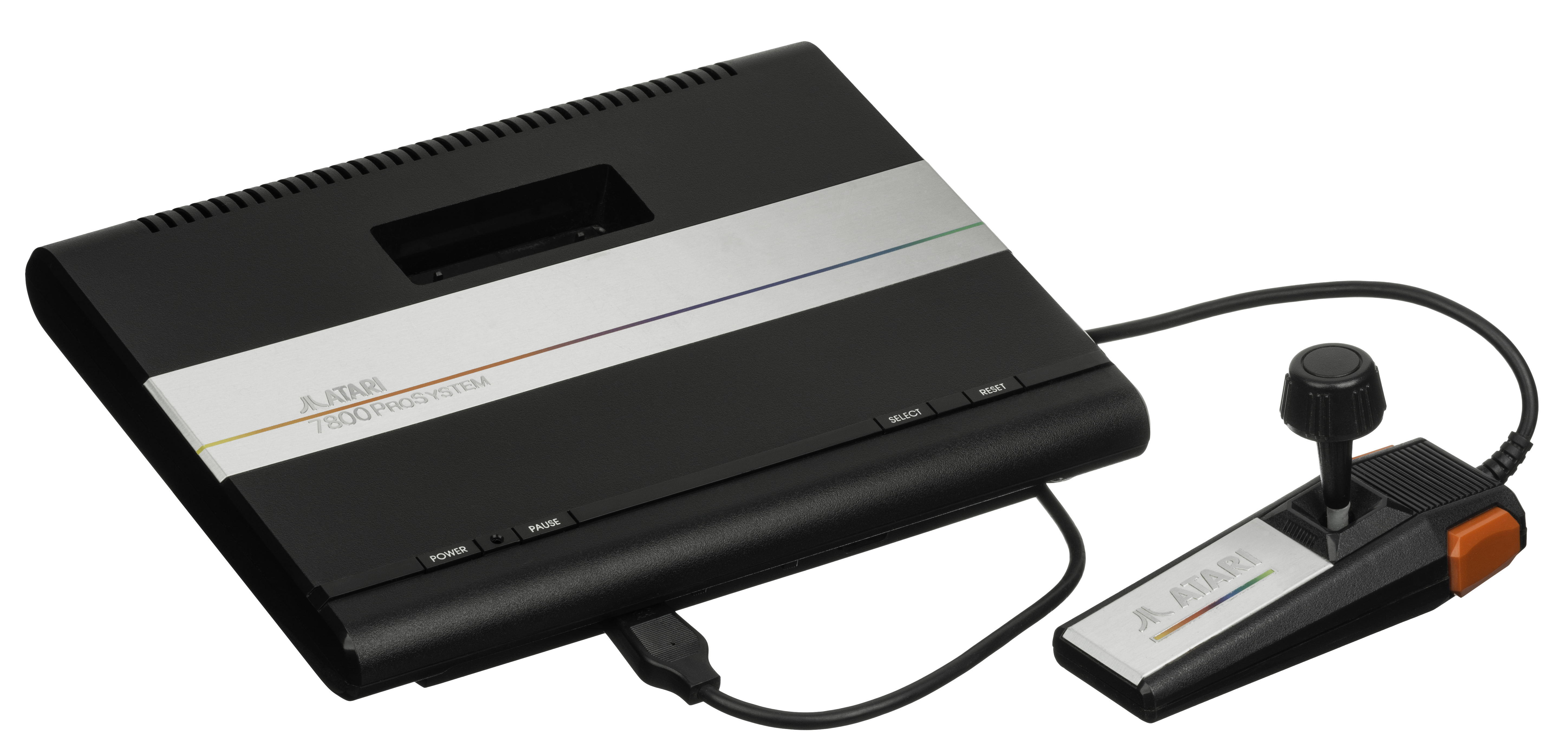 The Atari 7800 video game console. Initially released in 1984 as part of a test release, it was later shelved and then officially released in 1986.